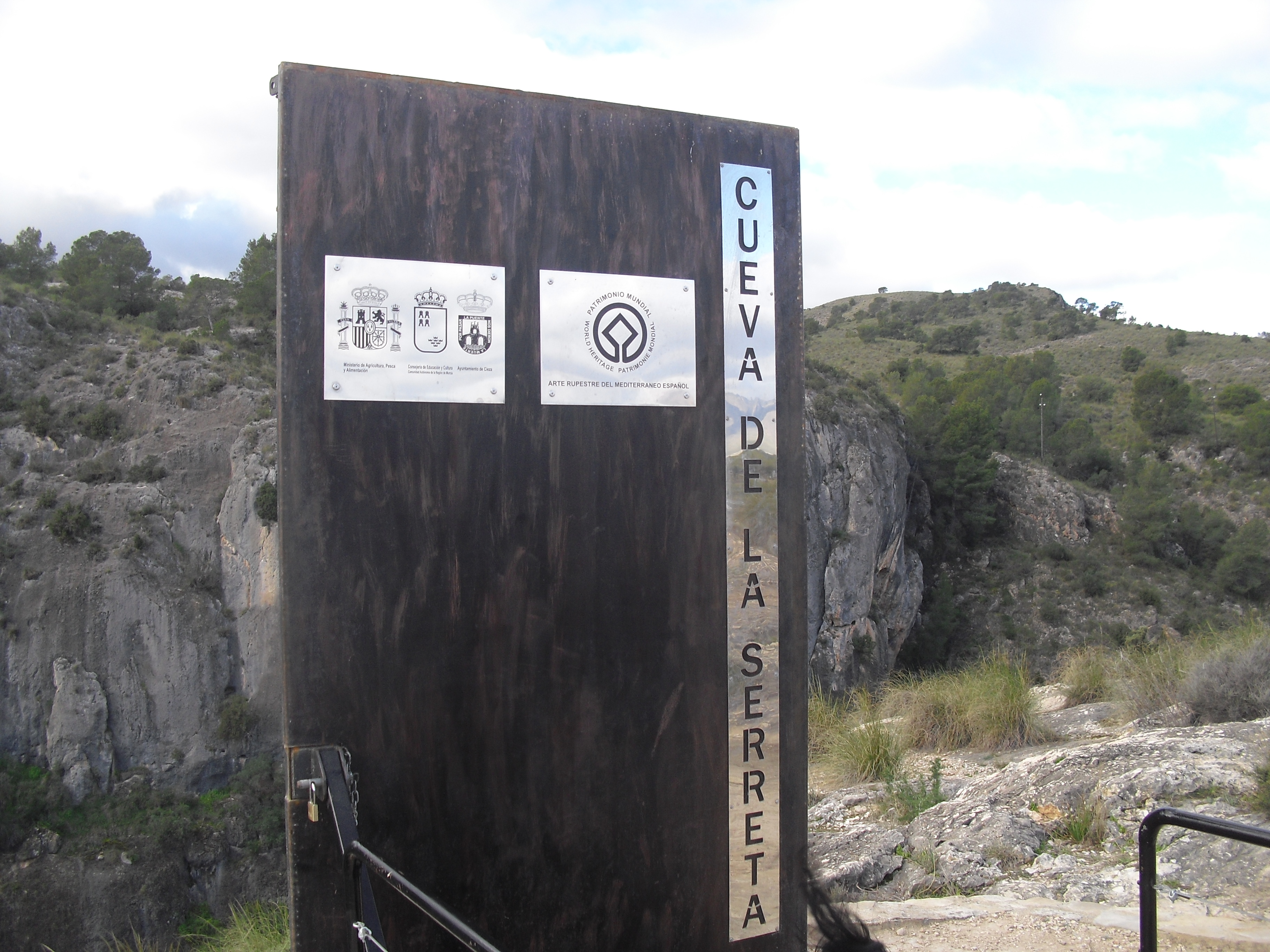 LaSerreta